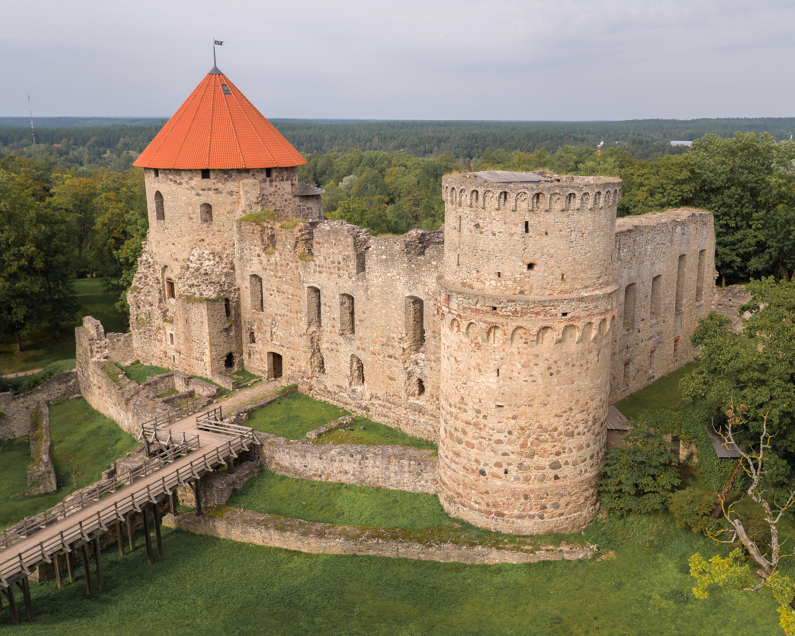 Cesis Castle 2017-09-10